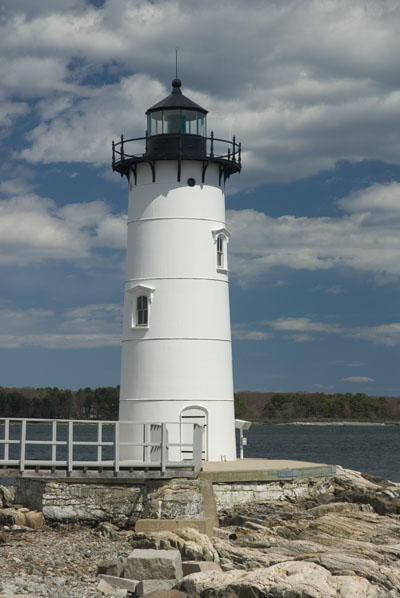 Original description: Portsmouth Harbor Lighthouse taken in 2007 by Ross Tracy, co-chair of the Friends of Portsmouth Harbor Lighthouse .